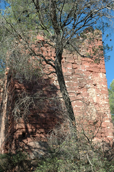 Cervelló castle. Cervelló, Baix Llobregat, Catalonia, Spain